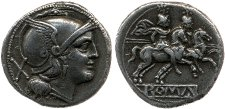 Silver coin.(obverse) Helmeted head of Roma, right; behind, denominational mark. Border of dots. (reverse) Dioscuri galloping, right; in linear frame, inscription. Line border. Roman Republic. Creative Commons Attribution-NonCommercial-ShareAlike 4.0 International (CC BY-NC-SA 4.0) license.